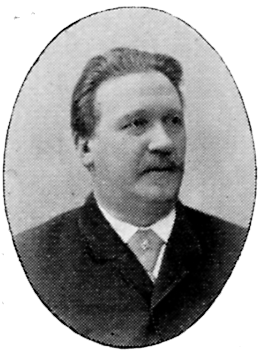 Image scanned from the book "Svenskt Porträttgalleri XX - Arkitekter, Bildhuggare, Målare m.fl. " ("Swedish Portrait Gallery XX - Architects, Sculptors, Painters, ") published 1901